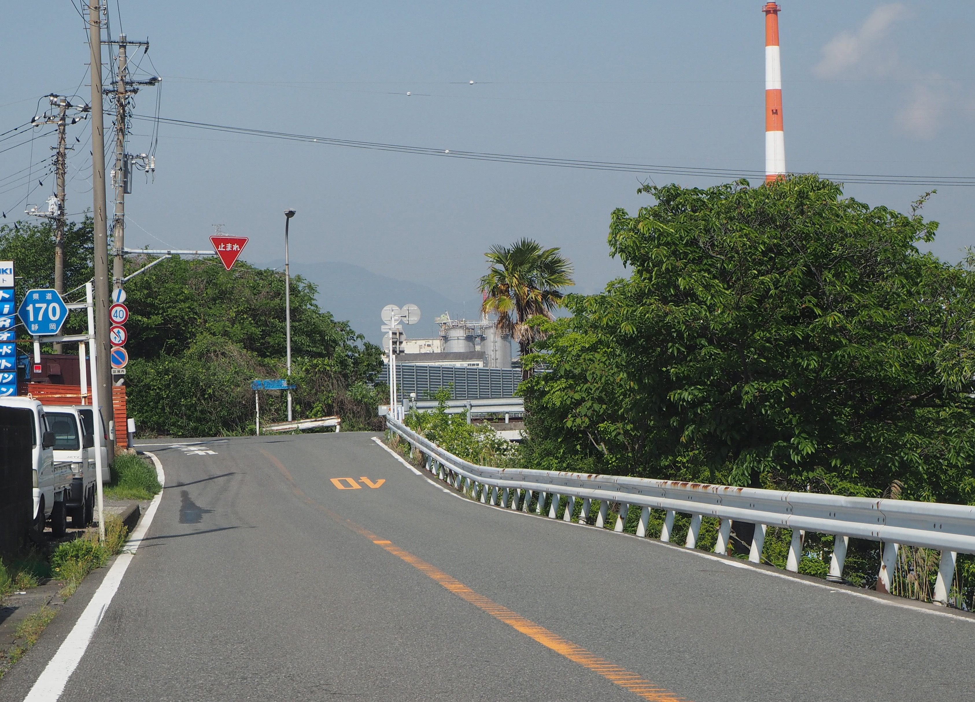 Shizuoka prefectural road Route 170